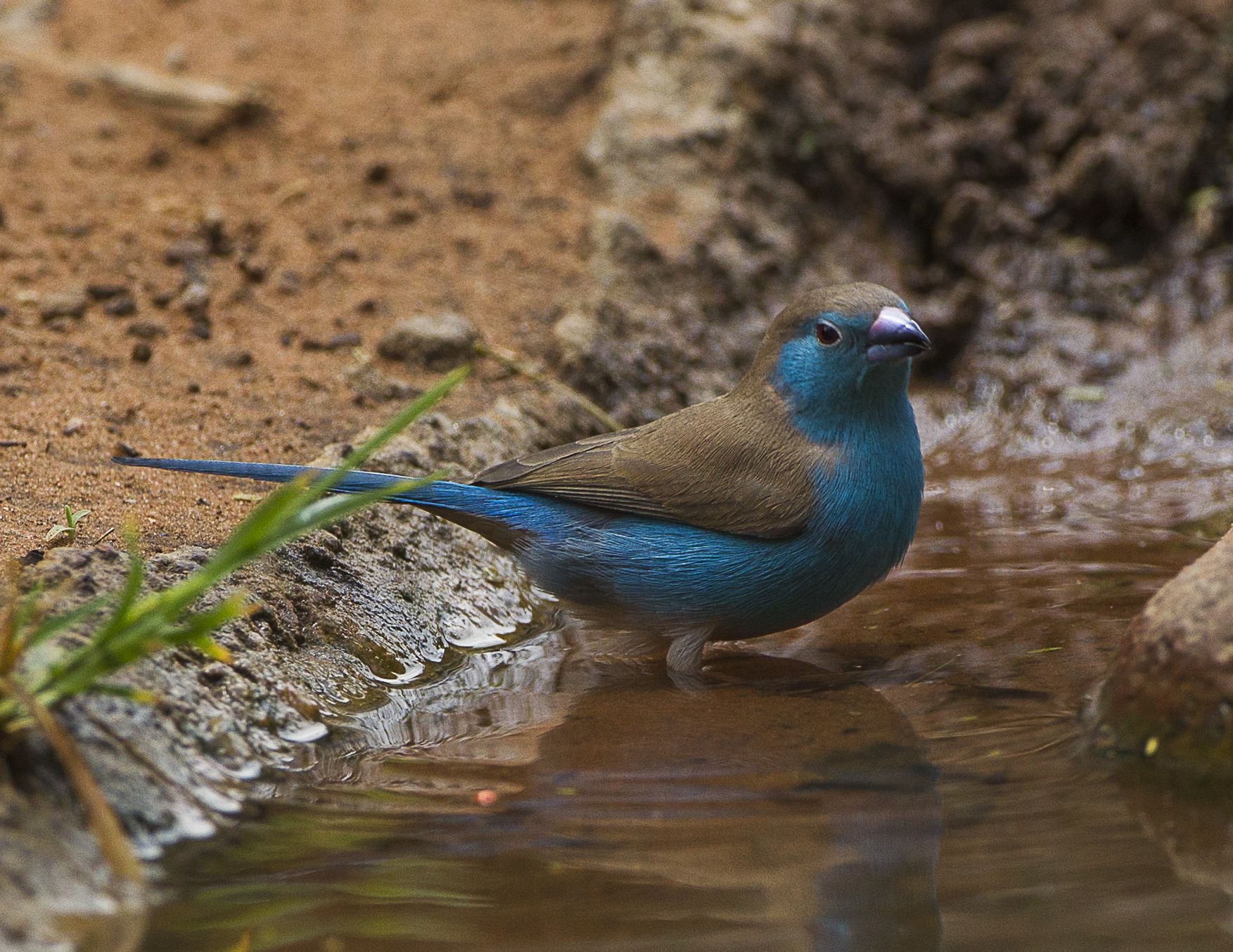 Blue-breasted Cordonbleu - Natal - South Africa_S4E9071